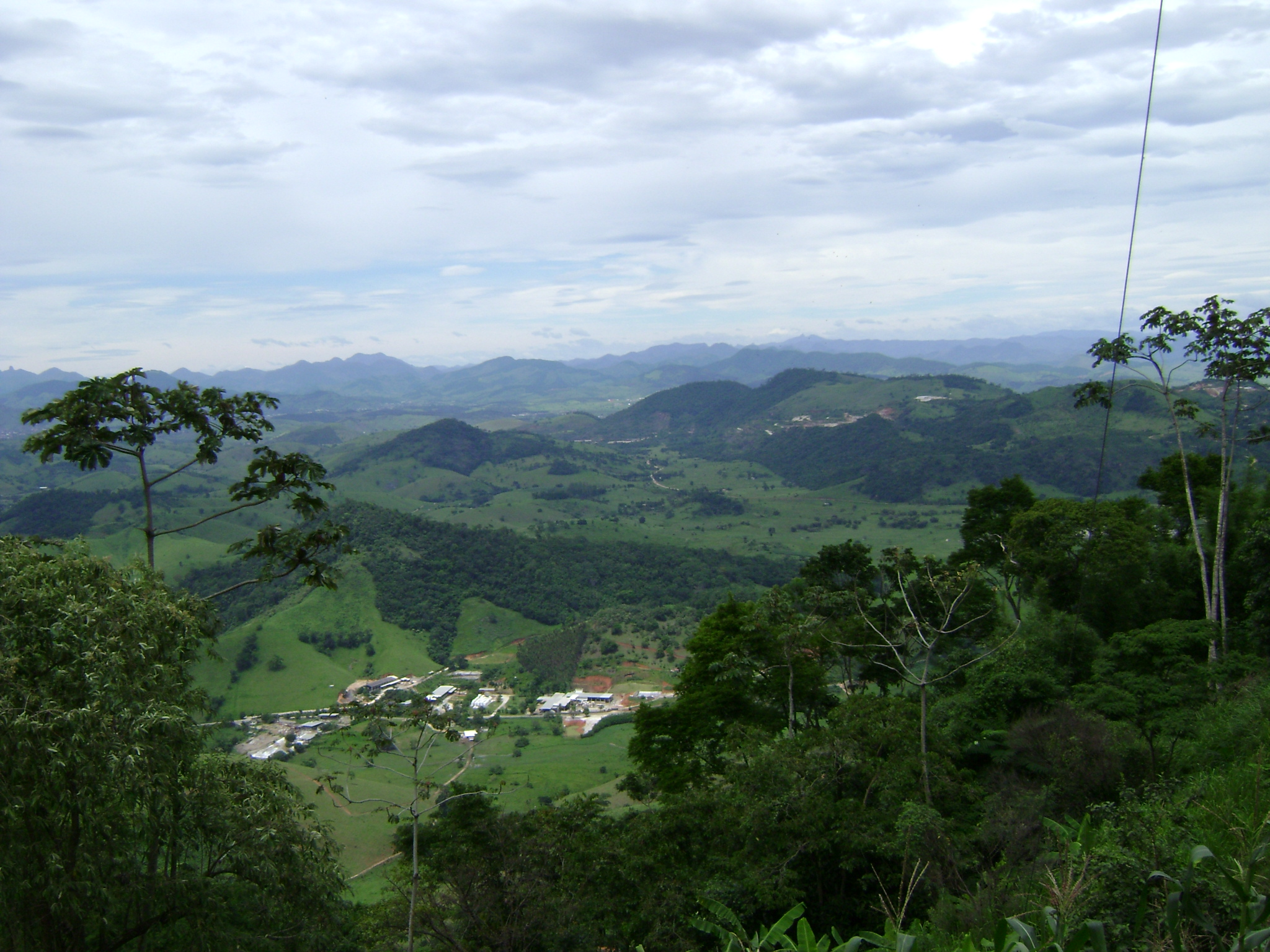 Vista do município de Venda Nova do Imigrante (Espírito Santo), através de um Mirante.